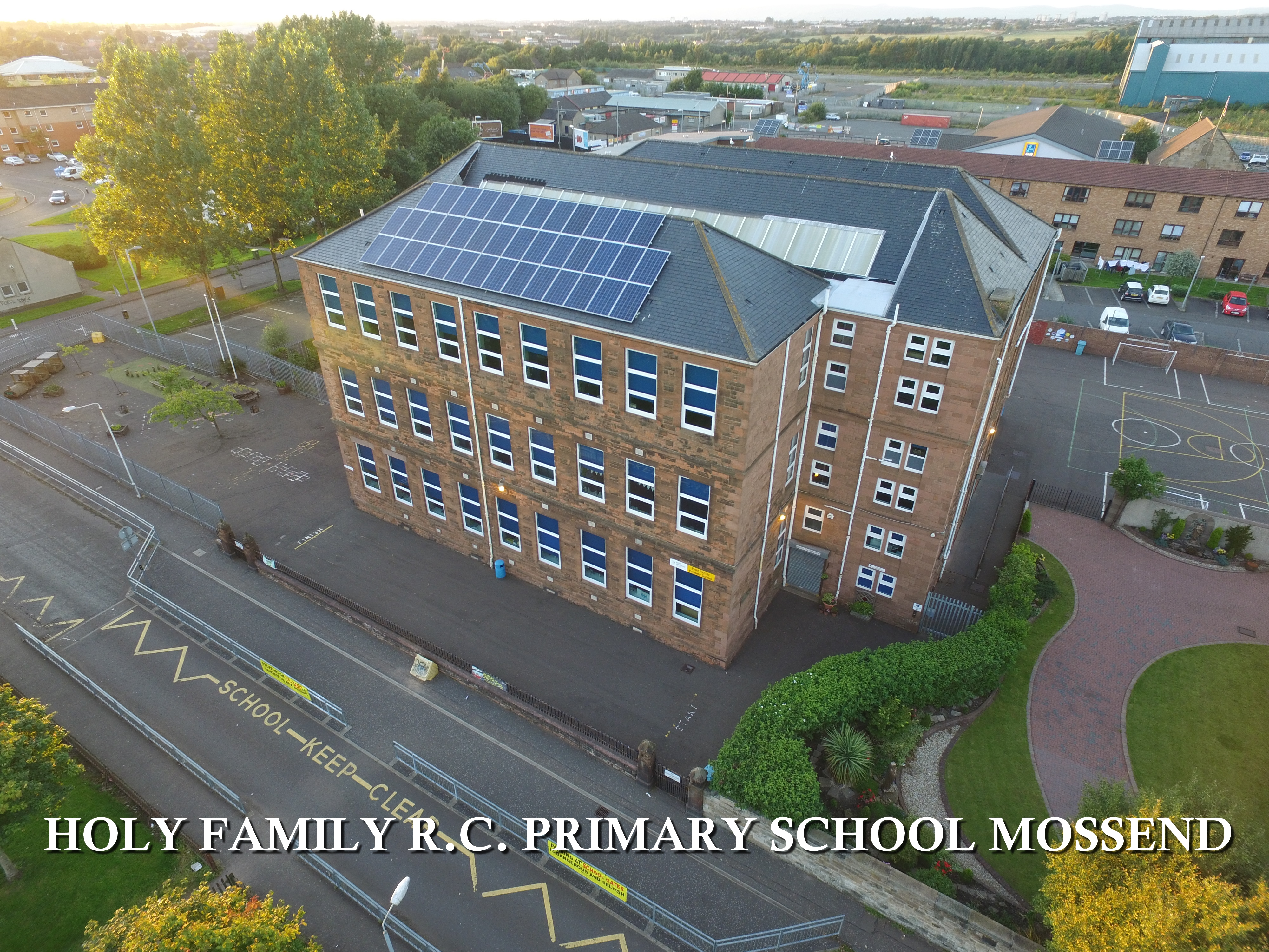 Holy Family Primary School, Mossend. Founded in 1868 by Holy Family Catholic Church. The current building was built in 1907 to replace the previous buildings dated 1868 and 1881.